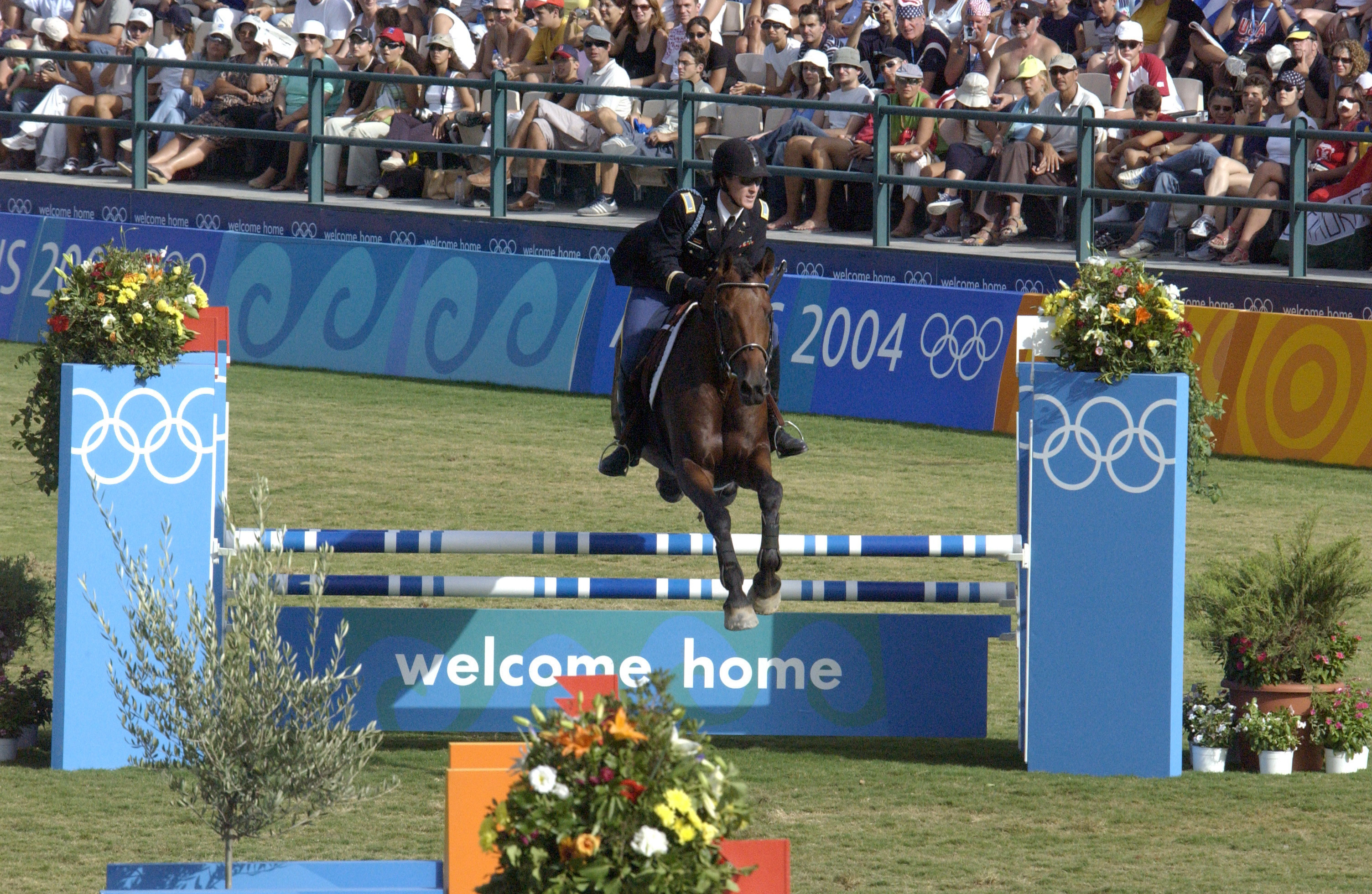 U.S. Army 1st Lt. Chad Senior, a member of the U.S. Army's World Class Athlete Program, at Fort Carson, Colo., maneuvers his horse through the Riding event, part of the 2004 Summer Olympics Men's Modern Pentathlon, at the Goudi Sports Complex, Athens, Greece, on August 26, 2004. (U.S. Air Force photo by Master Sgt. Lono Kollars) (Released)